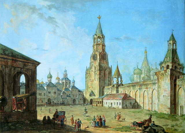 View from the Kremlin's Spassky Gate